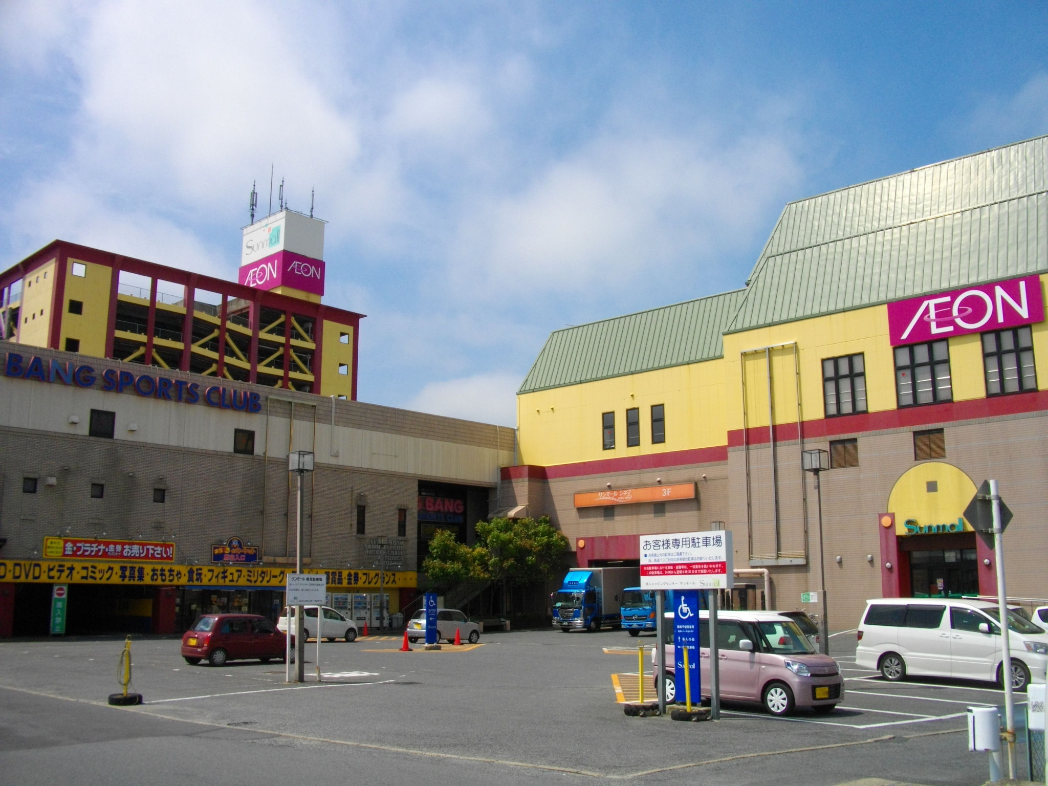 Asahi Sunmall Shopping Center